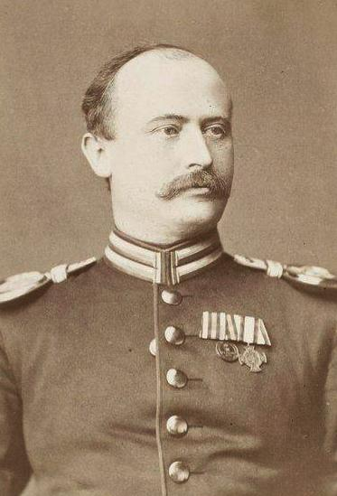 Julius Falkenstein's portrait